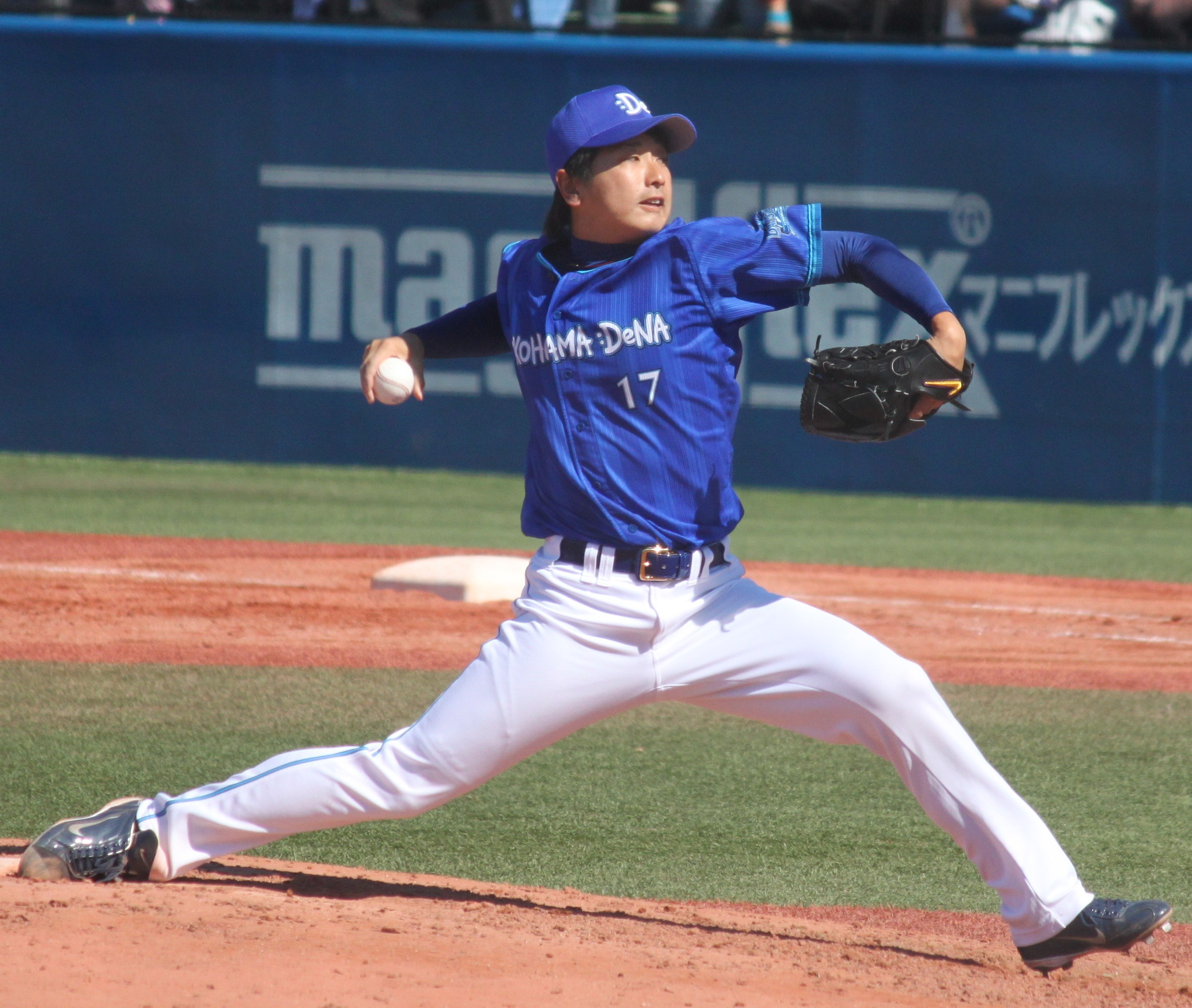 Kazuki Mishima, pitcher of the Yokohama DeNA BayStars, at Meiji Jingu Stadium.